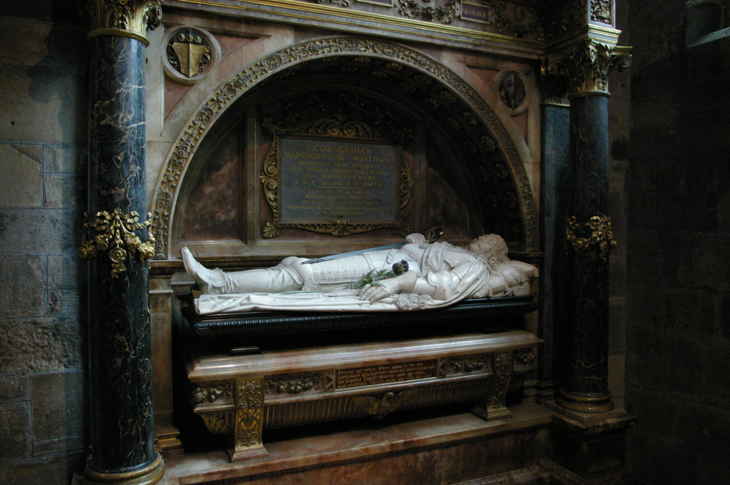 Tomb of James Graham, 1st Marquess of Montrose